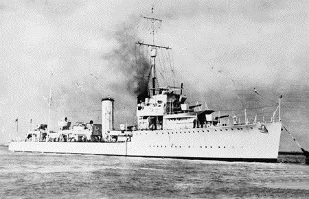 AWM Caption: SYDNEY, NSW. 1938-01-02. STARBOARD BOW VIEW OF THE RAN DESTROYER FLOTILLA LEADER HMAS STUART (I). AS A LEADER SHE HAS A BLACK BAND AROUND THE TOP OF THE FORE FUNNEL AND DOES NOT HAVE HER PENNANT NUMBER PAINTED UP.